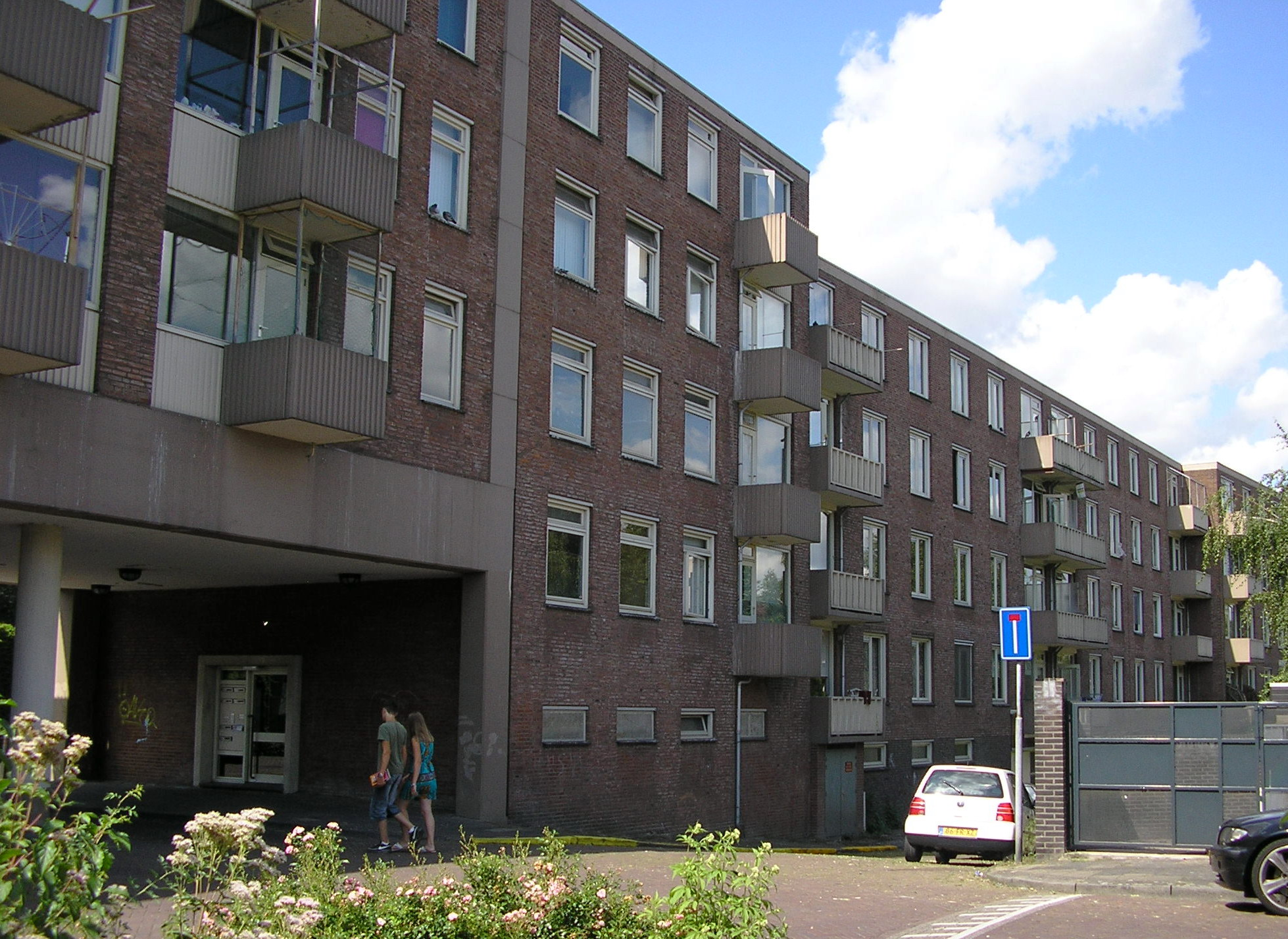 Residential flats along motorway A2 in Maastricht (to be demolished)